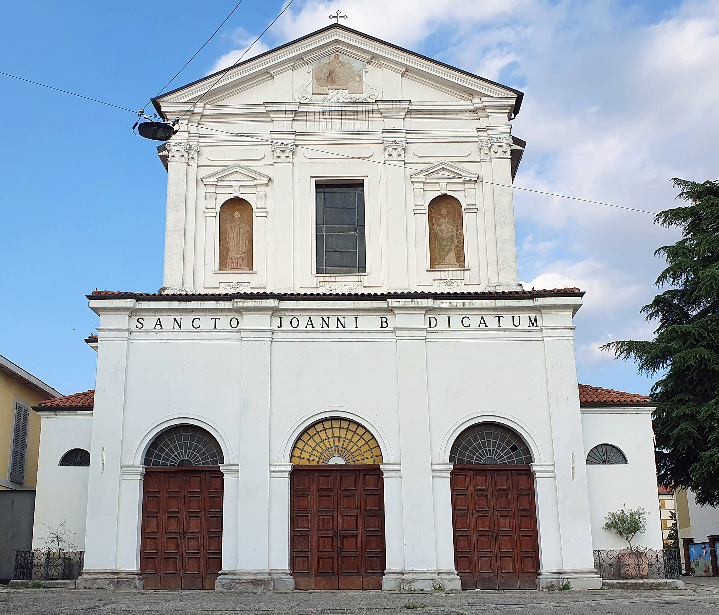 Facade Chiesa San Giovanni Battista Milano Trenno Italia